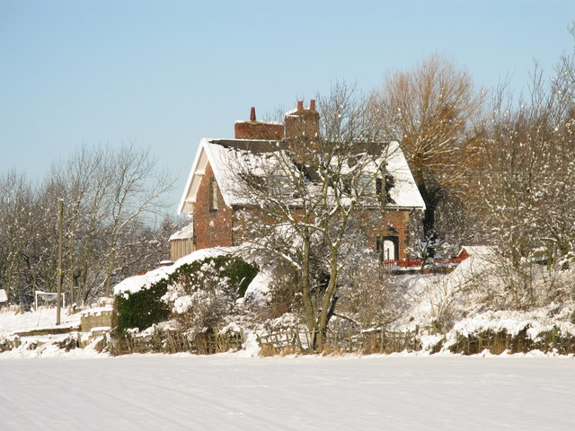 Haigh Station Former station building on what used to be known as the Barnsley Branch of the LMSR rail line.